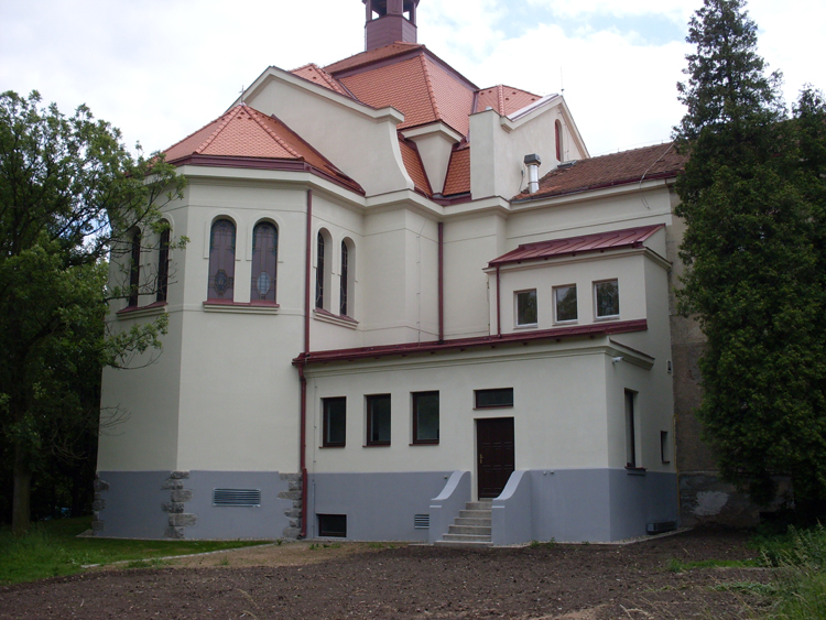 The Church of St. George, PLHoB.